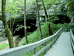 Source: National Park Service, U.S. Department of Interior URL